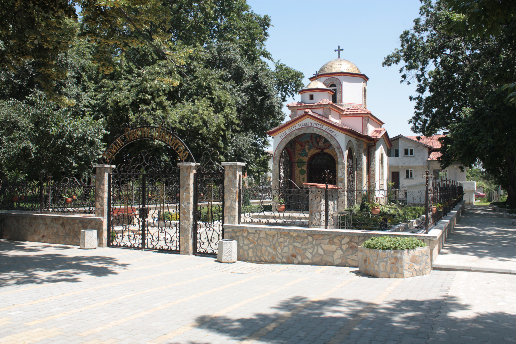 Saint Demetrius church in Stroevo, Bulgaria